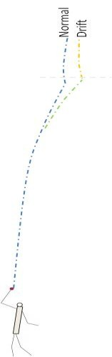 Cricket ball "drift", when a spinner is bowling